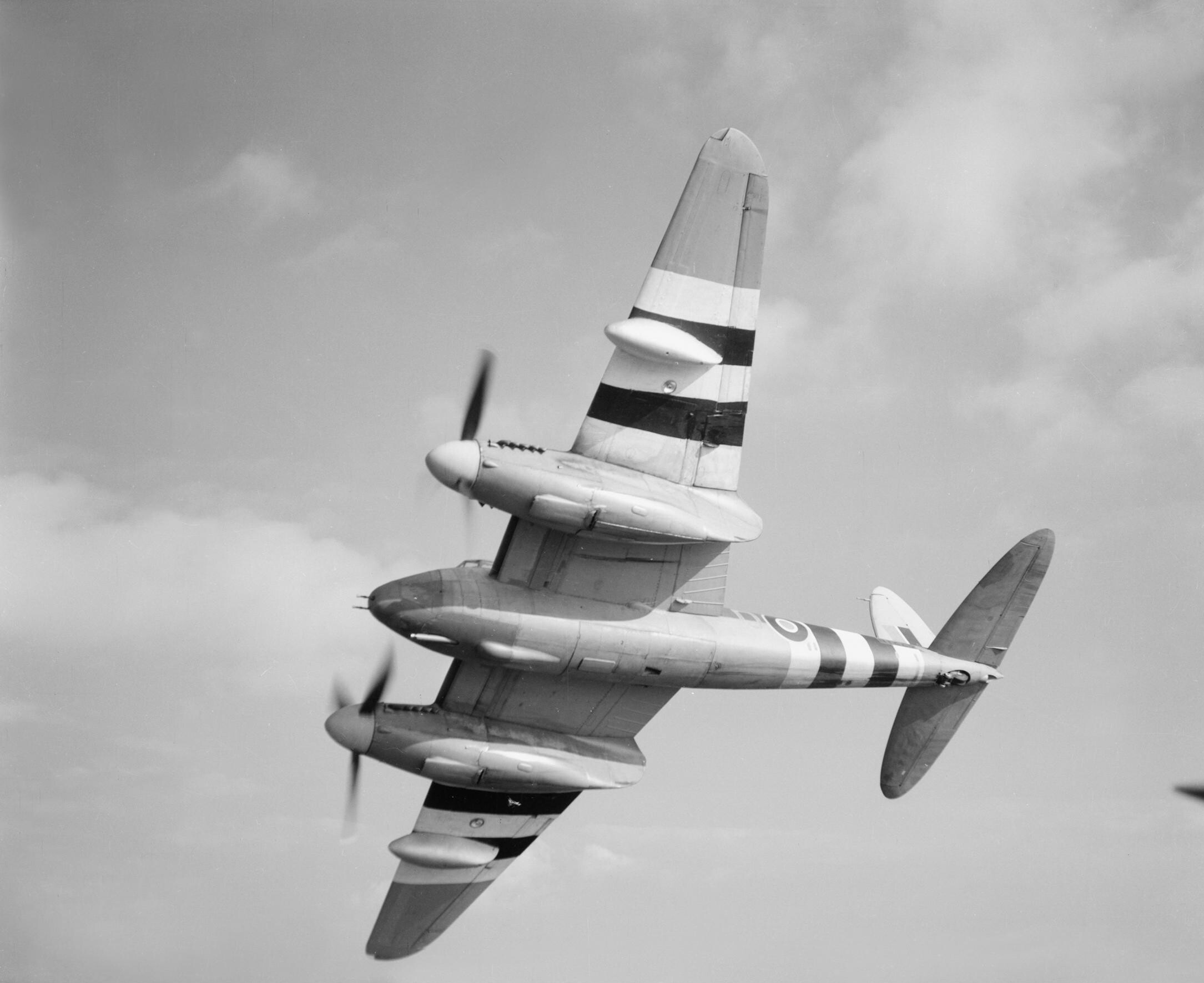 IWM text : Mosquito FB Mark XVIII, NT225 O, of No. 248 Squadron RAF Special Detachment based at Portreath, Cornwall, banking away from the camera while in flight, showing the 57mm Molins gun mounted underneath the nose. This version is sometimes referred to as the Tsetse.